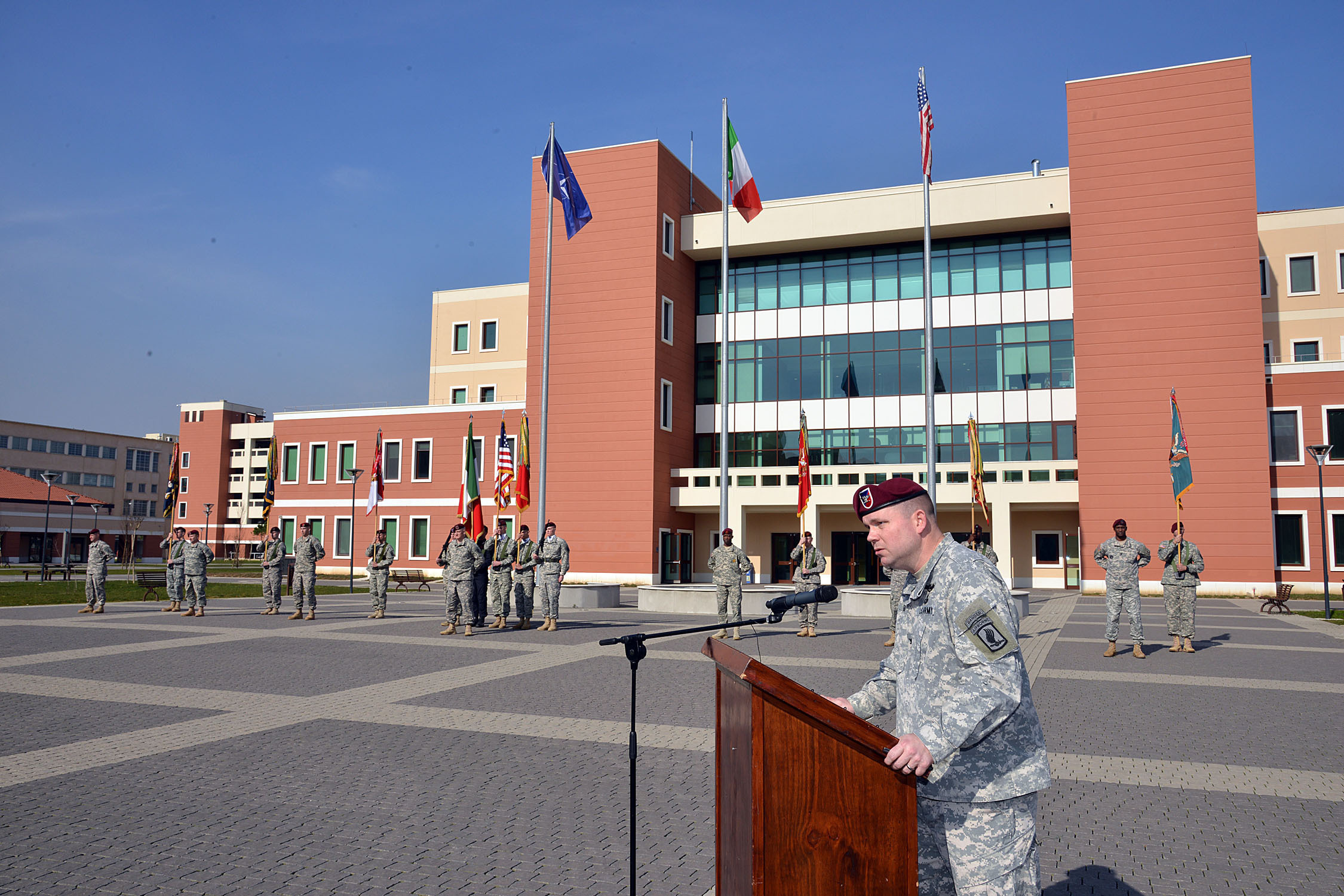 Col. Michael Foster, commander, 173rd Infantry Brigade Combat Team (Airborne), delivers his speech to outgoing Command Sgt. Maj. Michael Ferrusi, incoming Command Sgt. Maj. Richard Clark, Sky soldiers, families and guests Feb. 25, 2014 during a change of responsibility ceremony at Caserma Del Din, Italy. (Photos by Paolo Bovo (JM436), 7JMTC Vicenza - Italy/Released)